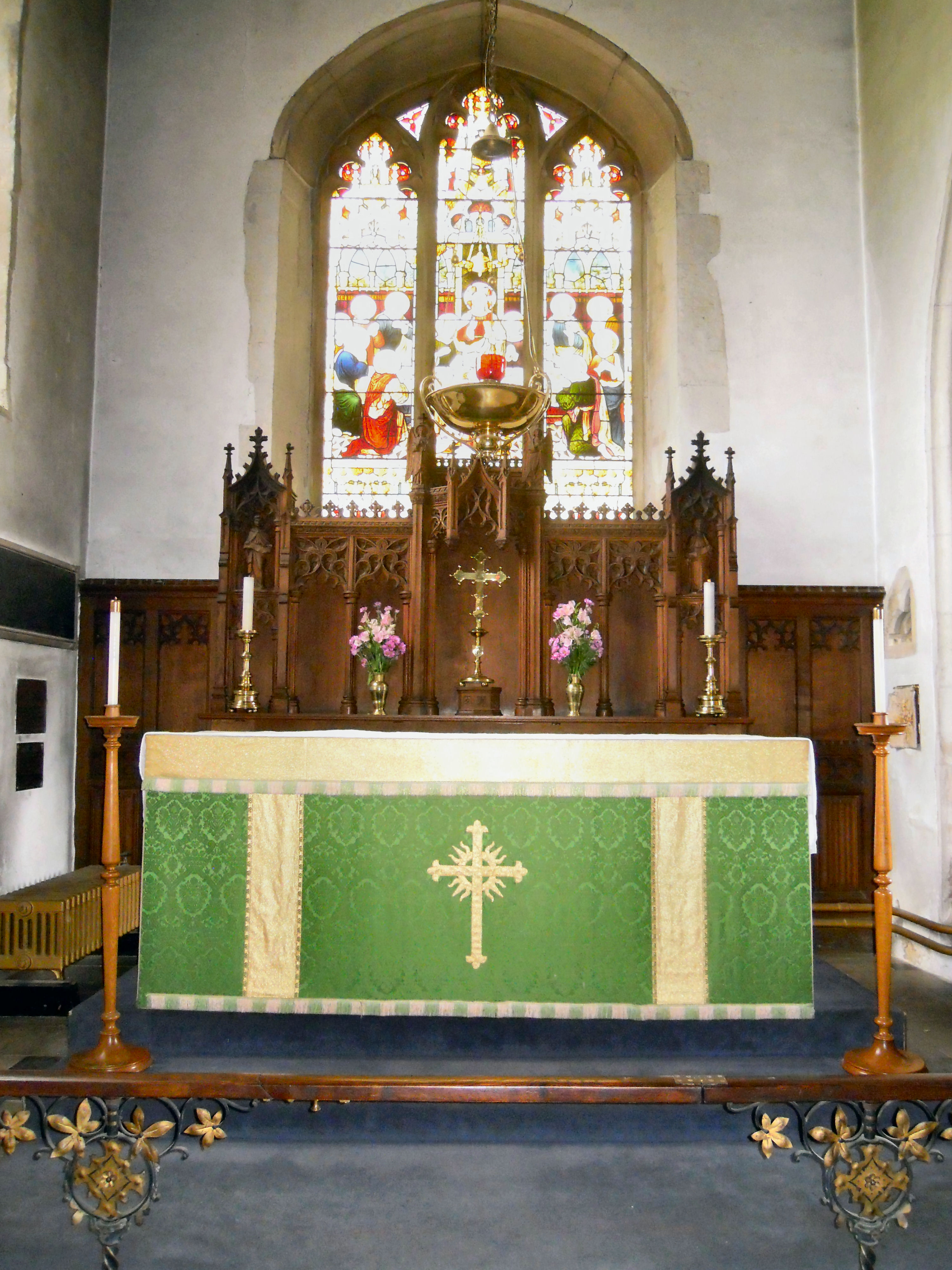 View of the Sanctuary in the Church of St Mary the Virgin in Potton in Bedfordshire